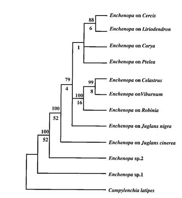 Shows the diversification of the Enchenopa species complex.